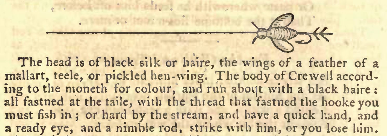 First known illustration of a fishing fly from John Denny's The Secrets of Angling, (1652)